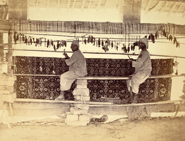 Photograph of Carpet Weavers in Karachi Jail - 1873 Source: British Library